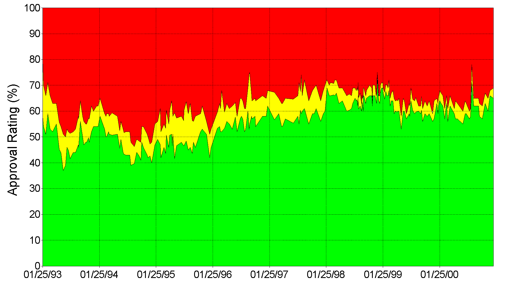 Approval Rating of Bill Clinton. Data from Gallup Poll